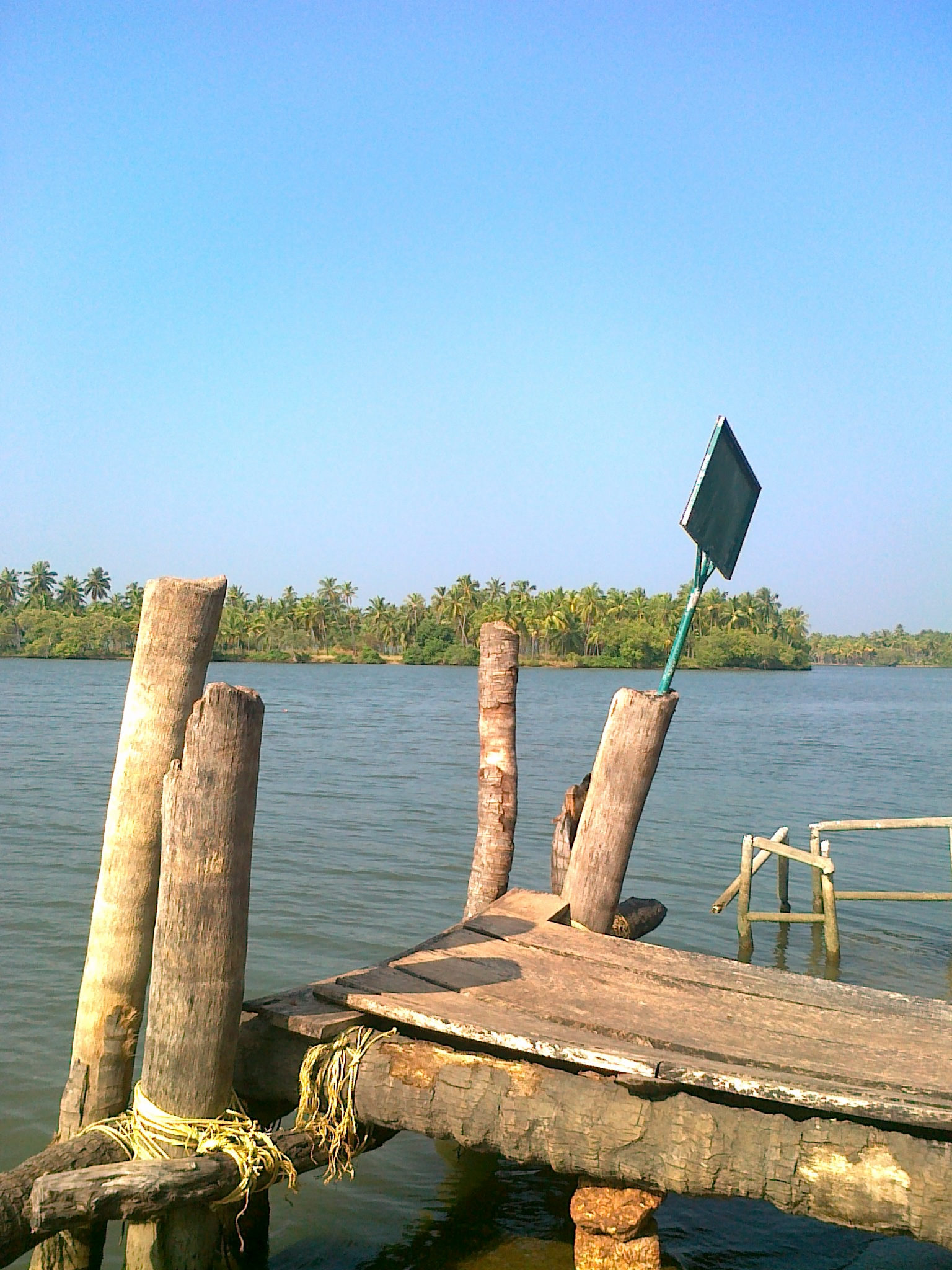 Boat jetty